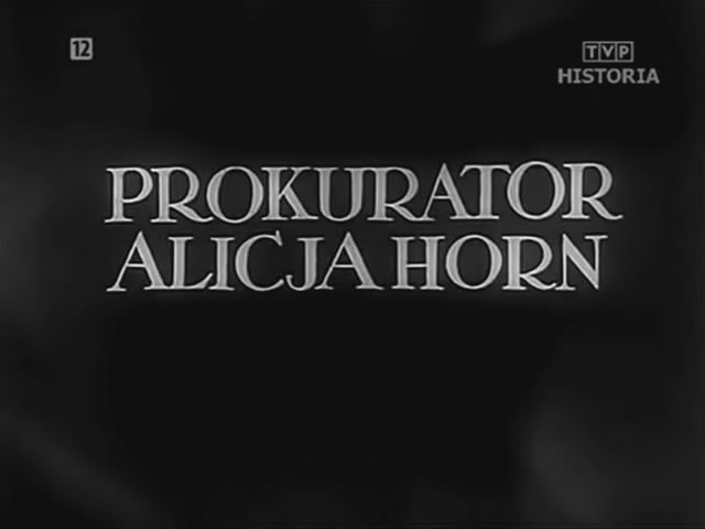 Screenshot from polish movie "Prokurator Alicja Horn", 1933 year.